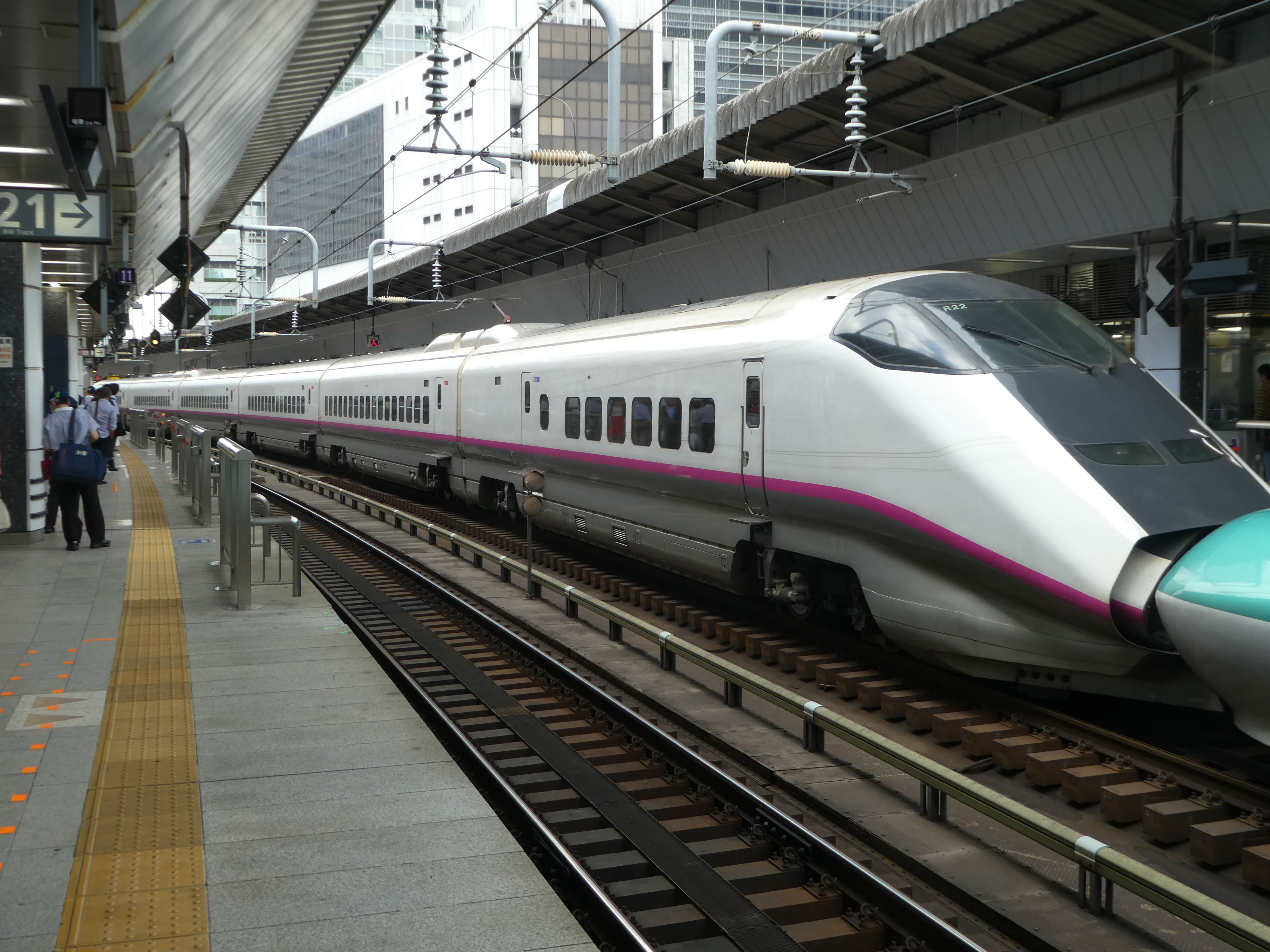 JR East E3 series shinkansen set R22 at Tokyo Station